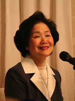 Anson Chan, former Chief Secretary for Administration, Hong Kong Special Administrative Region. 中文（香港）: 前香港特別行政區政務司司長陳方安生。